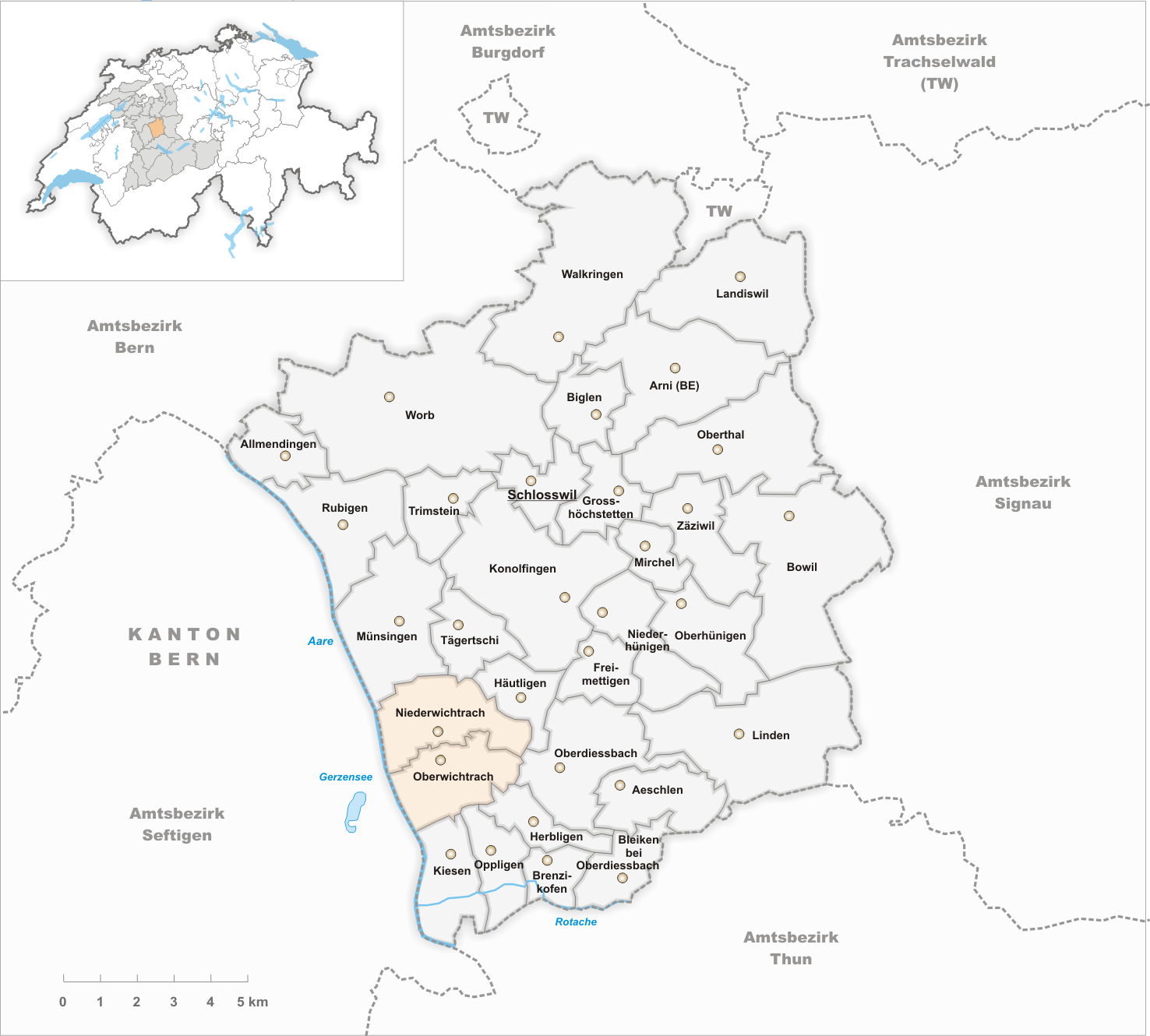 Municipalities in the district of Konolfingen until 2003